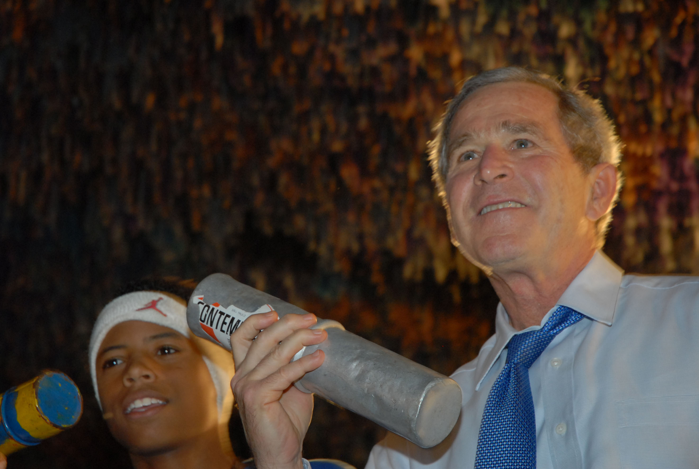 The president of the United States, George W. Bush, plays the ganzá during a visit in São Paulo.